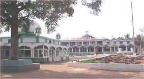 My home masjid